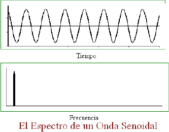 Sine wave spectrum